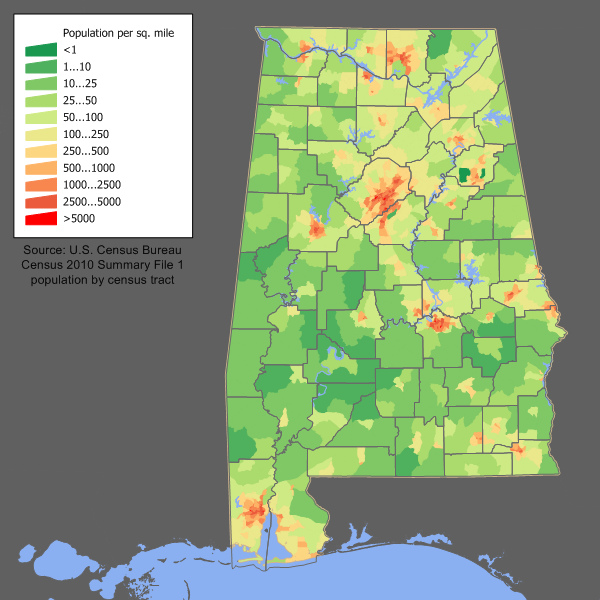 Category:U.S._State_Population_Maps Category:Alabama maps Summary Alabama population map based on Census 2010 data. See the data lineage for the process description.